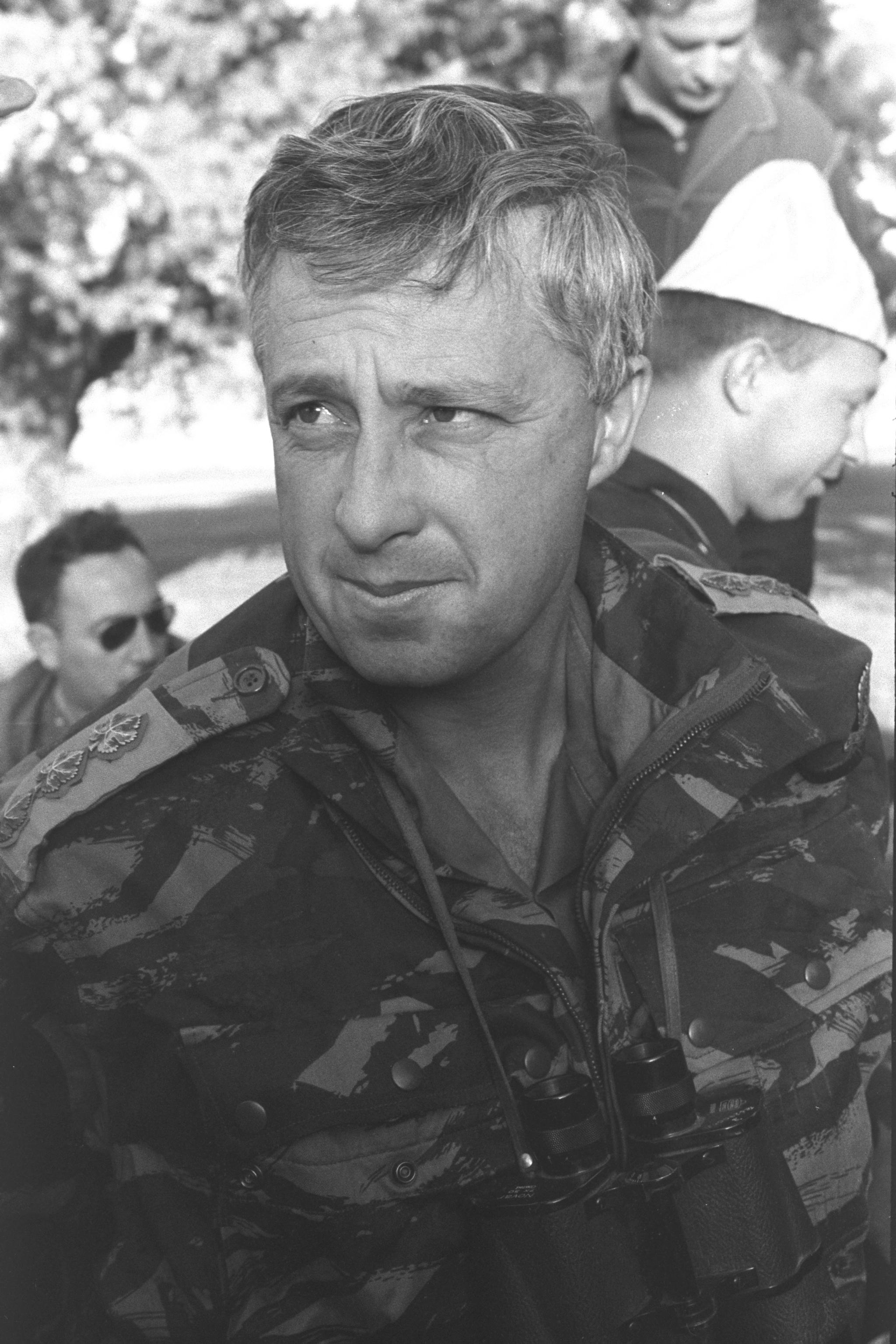 ALUF MISHNE ARIEL SHARON (ARICK) O.C. NORTHERN COMMAND.